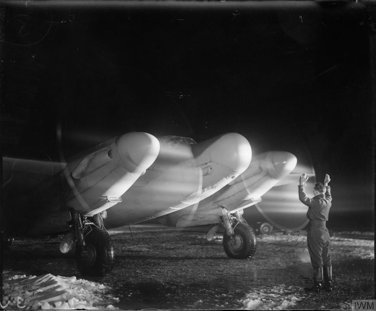 Royal Air Force- 2nd Tactical Air Force, 1943-1945. A De Havilland Mosquito NF Mark XIII of No. 604 Squadron RAF prepares to taxy out onto the perimeter track in the melting snow at B51/Lille-Vendeville, France, for a night sortie.